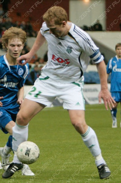 Marek Lemsalu as a player of FC Levadia